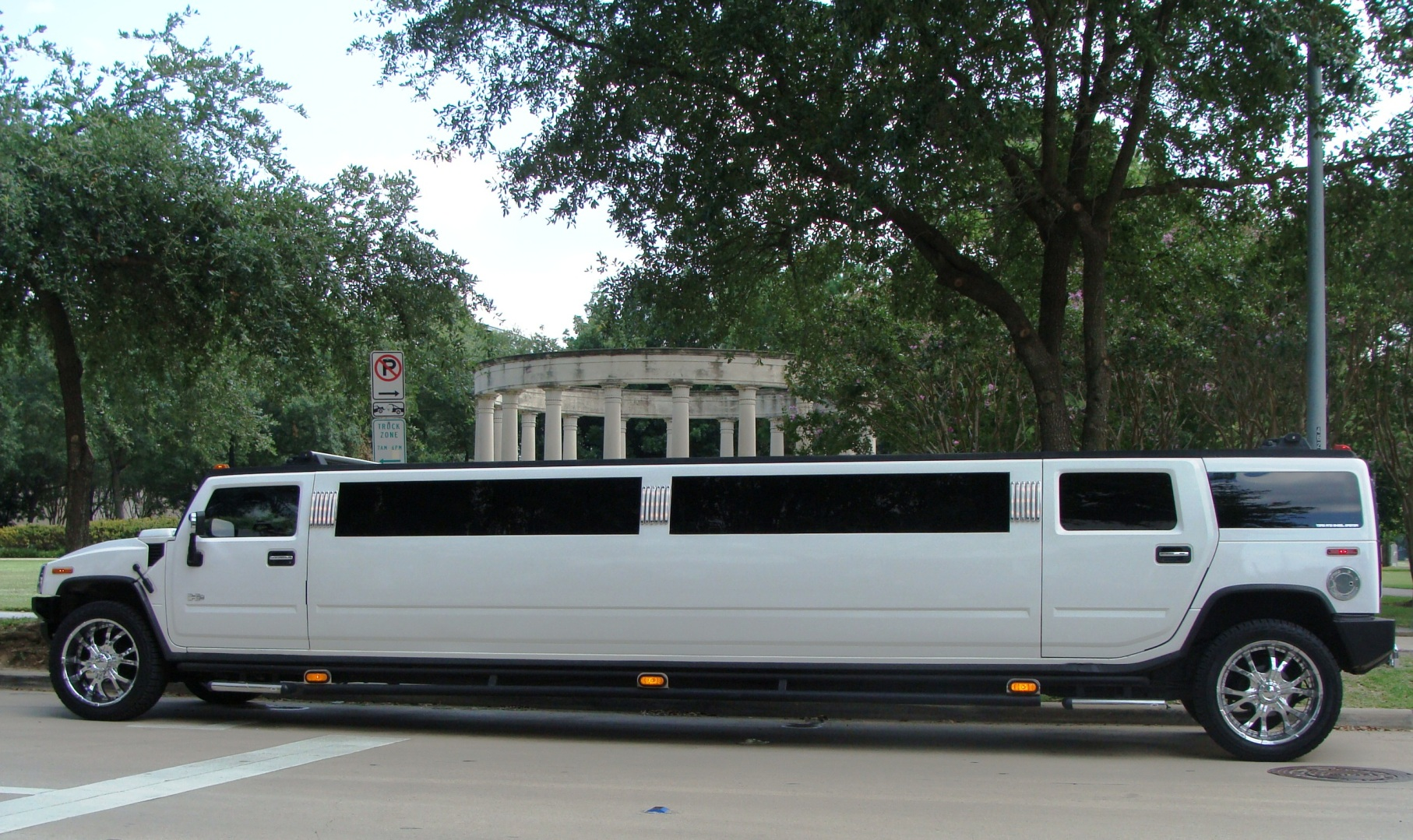 A H-2 Hummer Limo, near Hermann Park, Houston